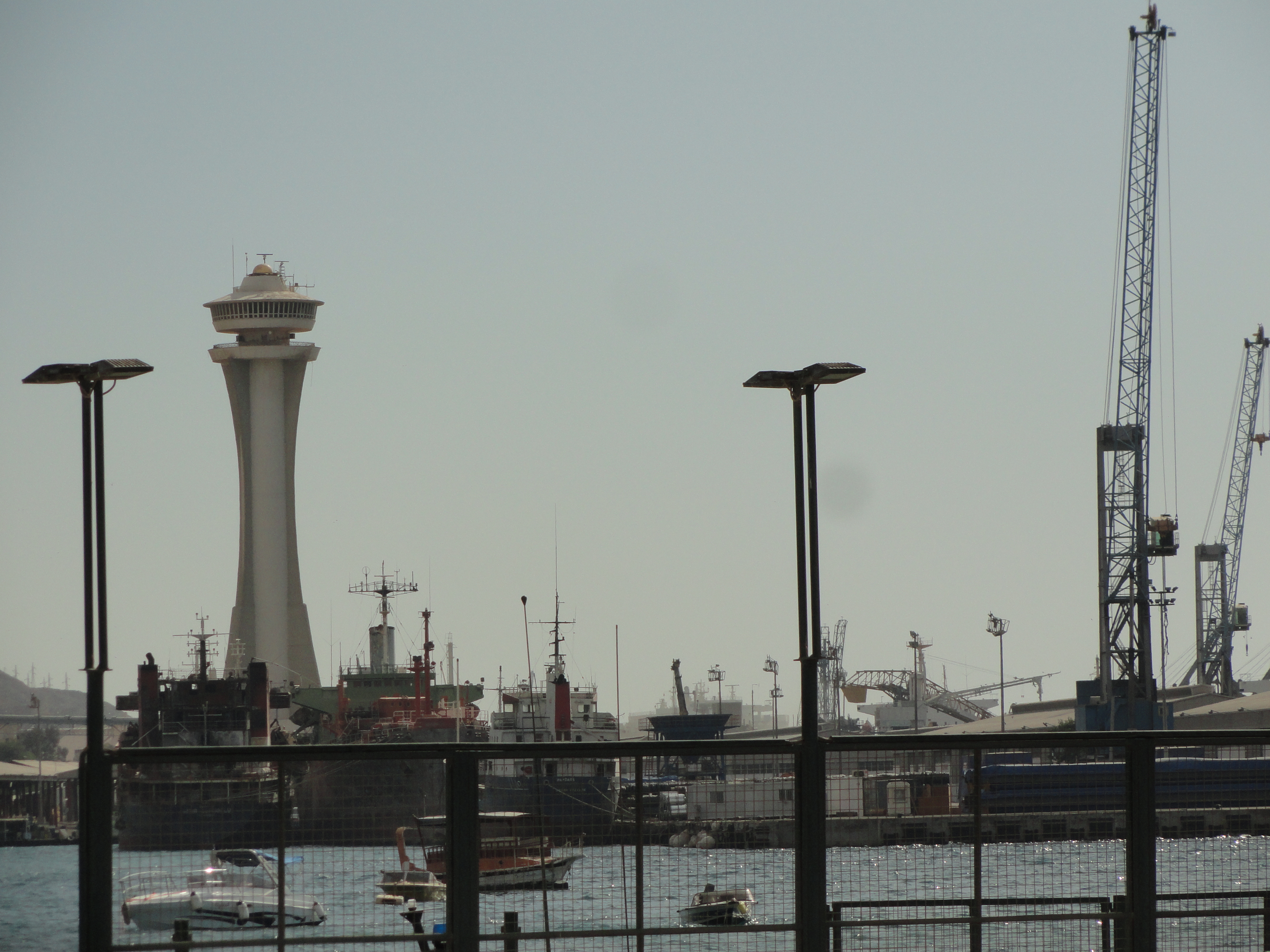 Aqaba Port Beacon in Jordan